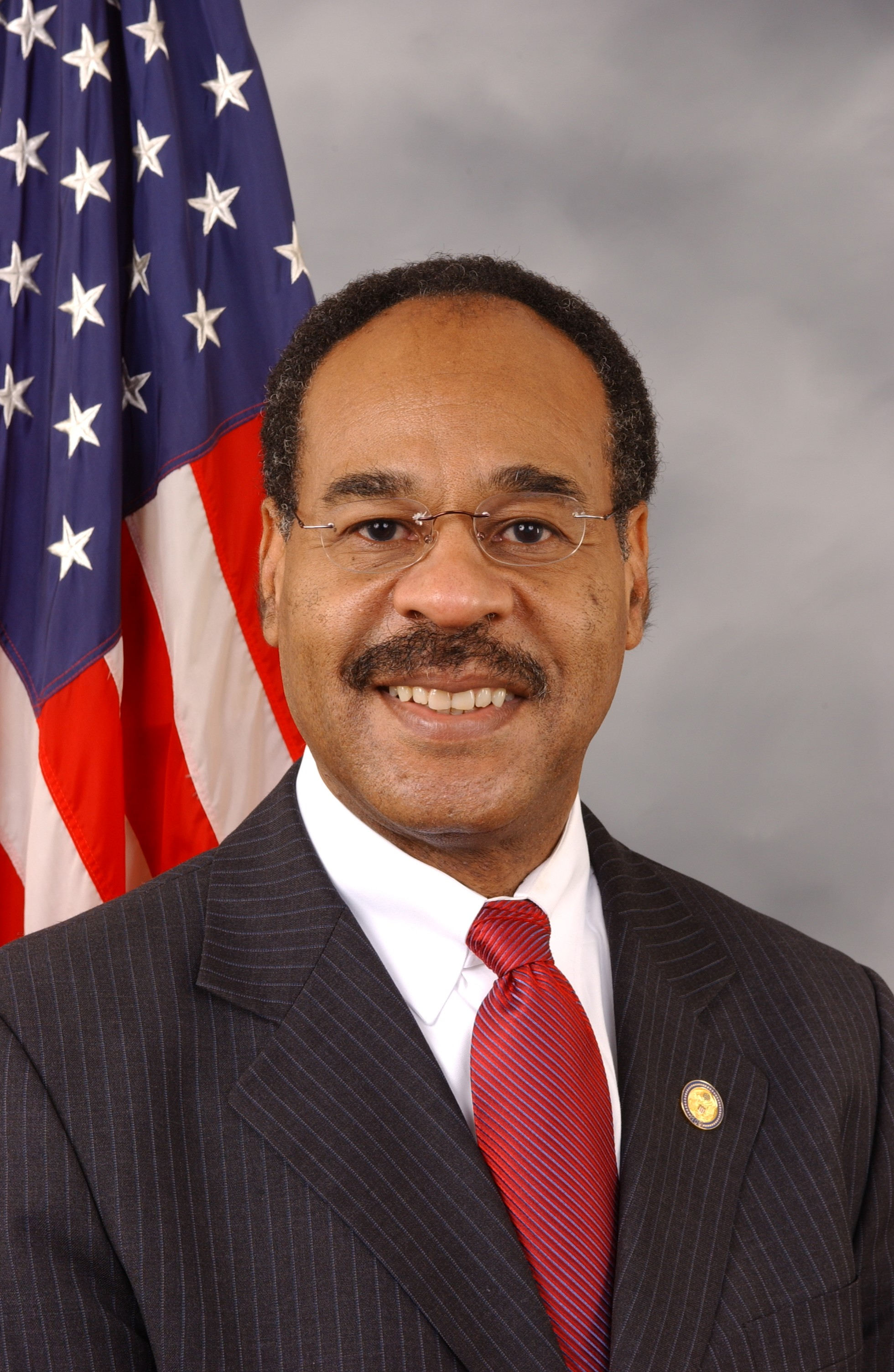 Emanuel Cleaver, member of the United States House of Representatives.